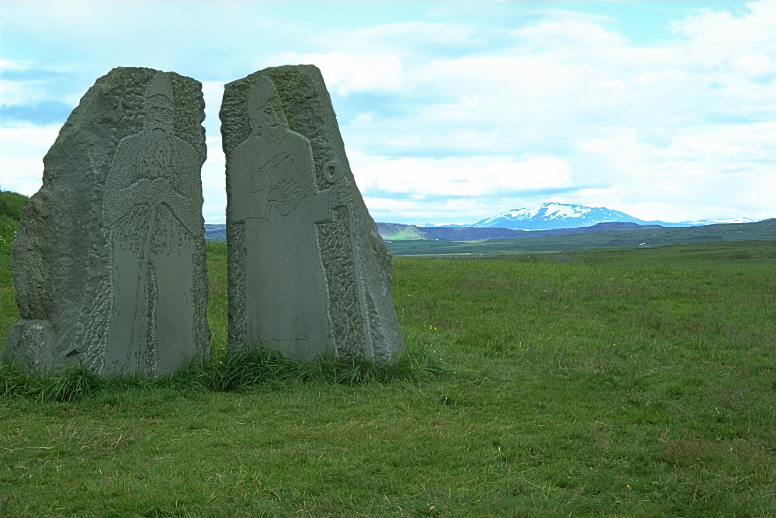 Memorial stone at Skálholt, Iceland Photo was taken using the following technique: Film: Fuji Velvia Lens: 4/70-210 Filter: Body: Minolta Dynax 7 Support: Manfrotto 190B Image with Information in English Bild mit Informationen auf Deutsch